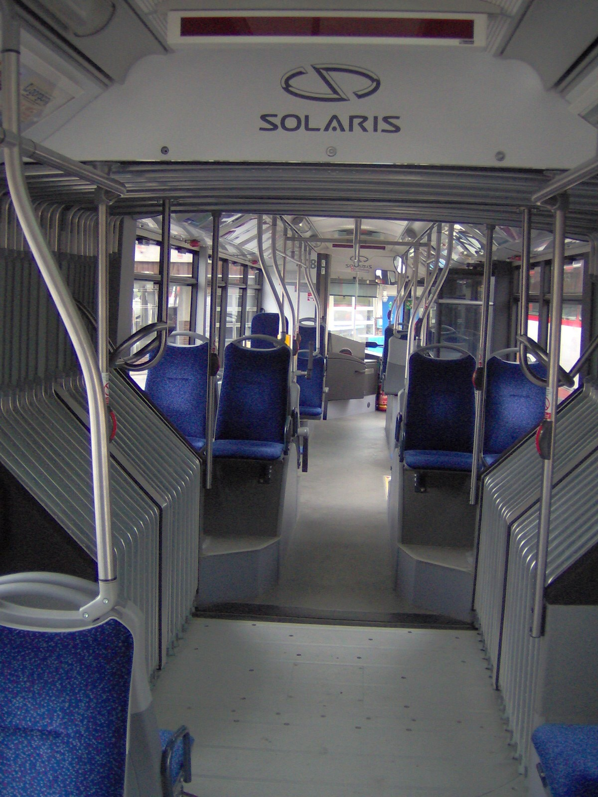 Solaris Urbino 18 Mk3 in bus depot, Olomouc, Czech Republic. Built 2008.